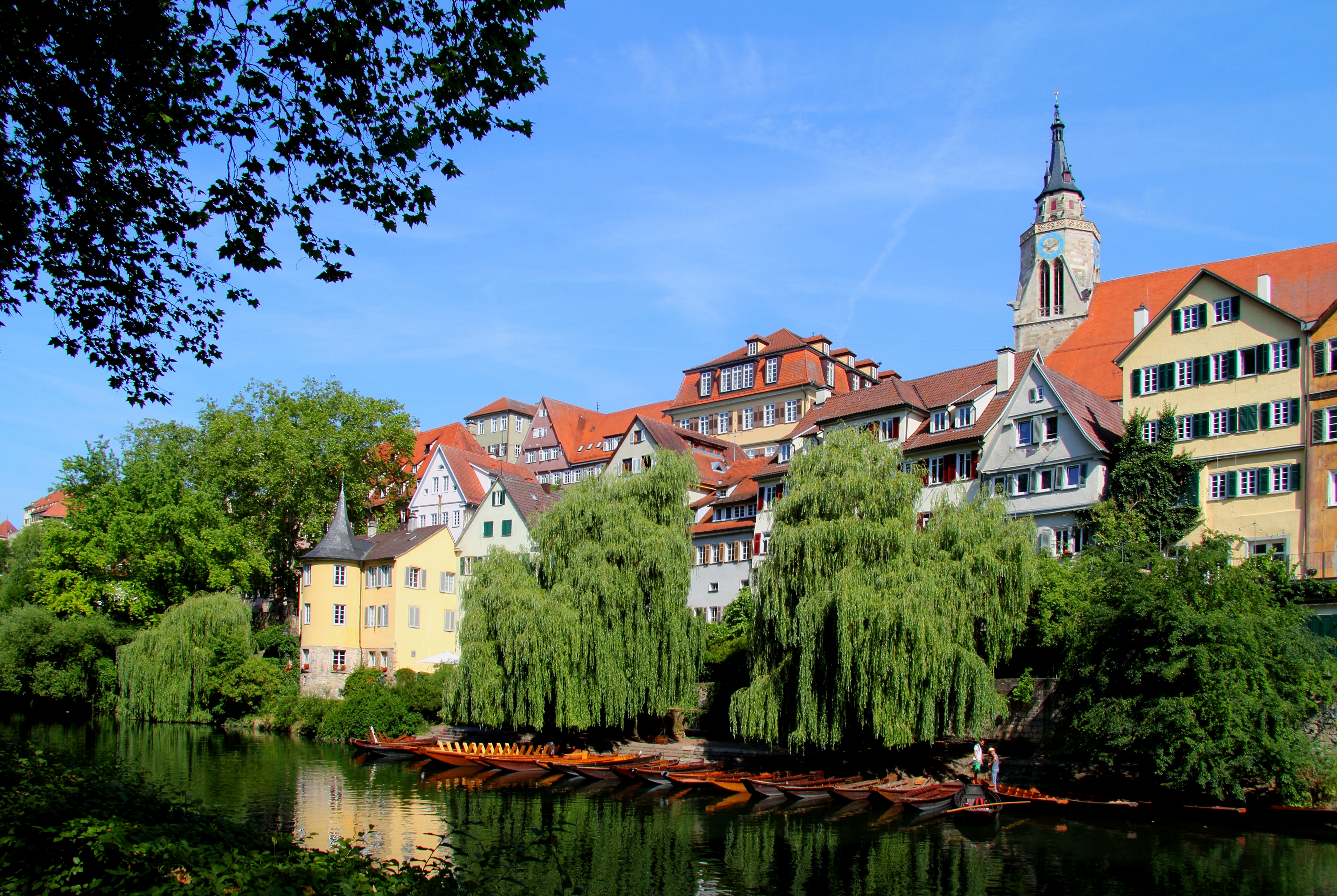 Tübingen, Germany, front of the old city towards the Neckar river